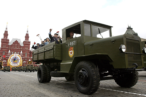 RED SQUARE, MOSCOW. Military parade celebrating the sixtieth anniversary of victory in World War II.